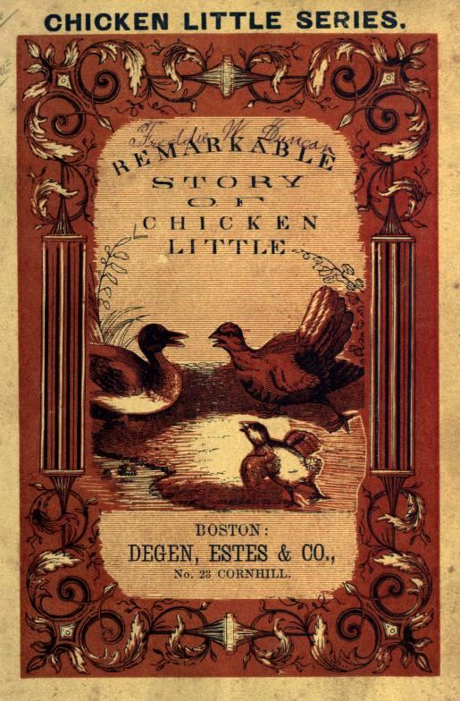 A Boston edition c.1865 of The Remarkable Story of Chicken Little first published there in 1840